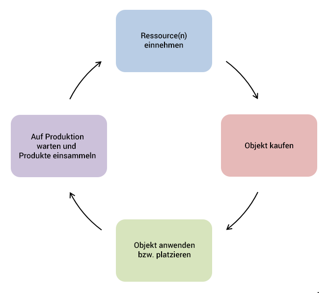 Basic game loop in a building strategy videogame